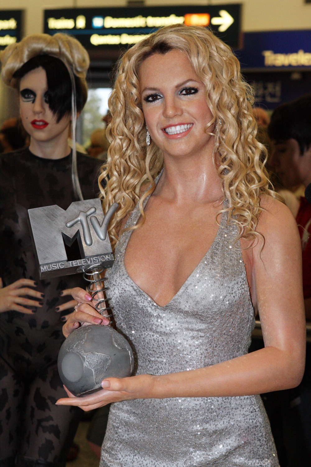 Two world-renowned pop-stars, Beyonce and Britney touch down at Sydney International Airport just in time for the Mardi Gras parade, with their designer luggage in-tow. The Queens of Pop will be dressed to impress. Beyonce will be wearing an outfit from the music video for her global hit ‘Single Ladies’ – while Britney will be wearing a stunning, sparkling silver dress, holding just one of many music awards she has won throughout her career. With powerhouse vocals and killer dance moves, these two Queens of Pop have collectively sold over 175 million albums worldwide and have achieved countless number one hits throughout their international careers. Beyonce and Britney touching down in Sydney, with designer luggage in-tow Beyonce in her signature pose and outfit from global hit, ‘Single Ladies’ Britney Spears in a sparkling silver dress holding a music award